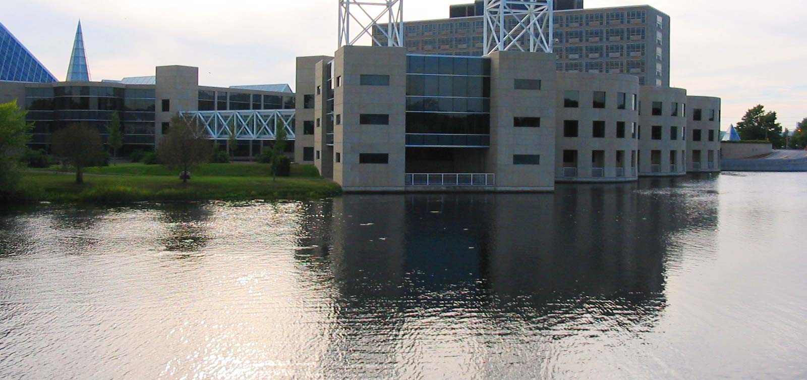 The Old City Hall, Sussex Drive, Ottawa